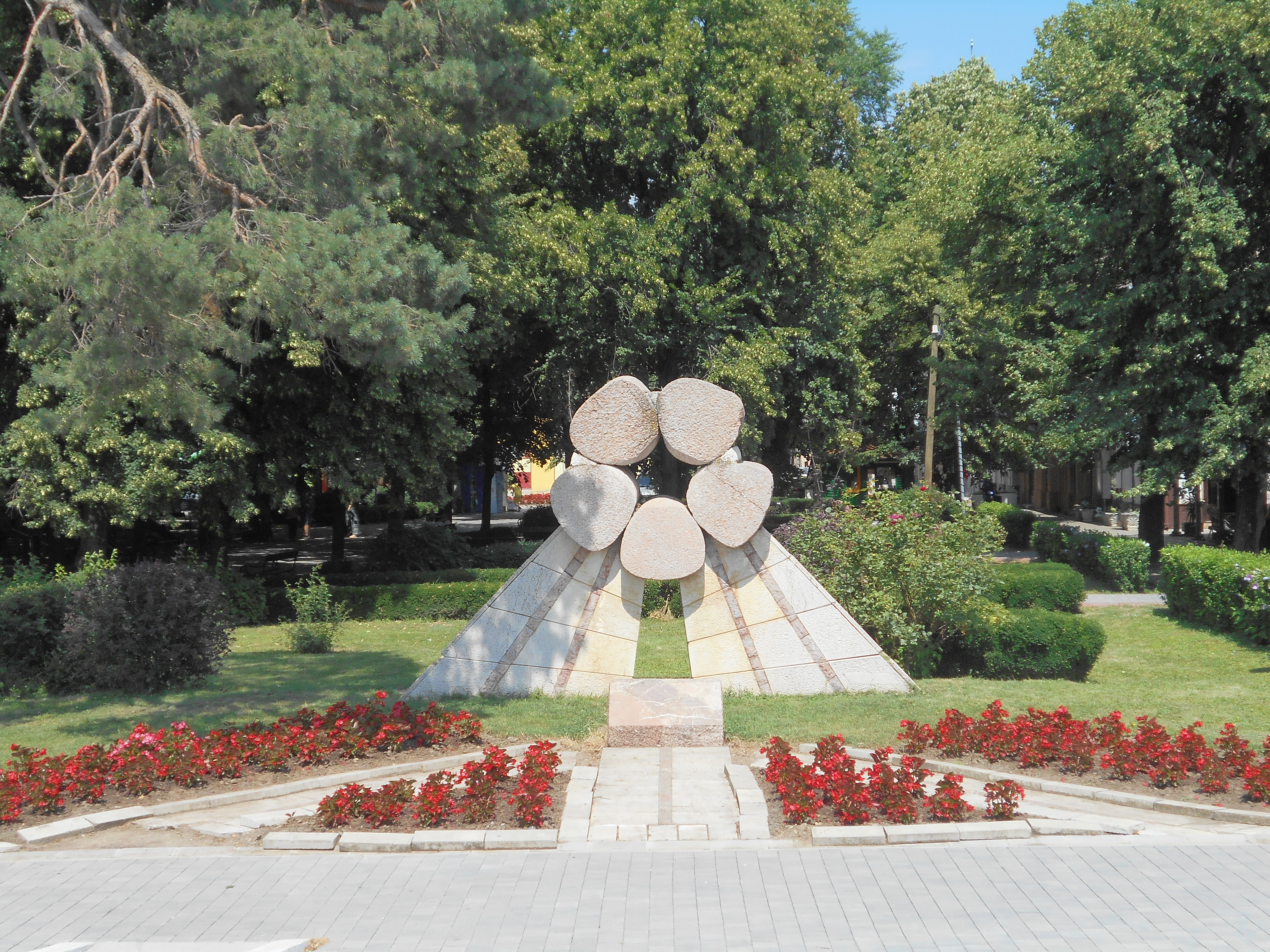 Monument to fallen soldiers in World War II, on the quay in Novi Becej